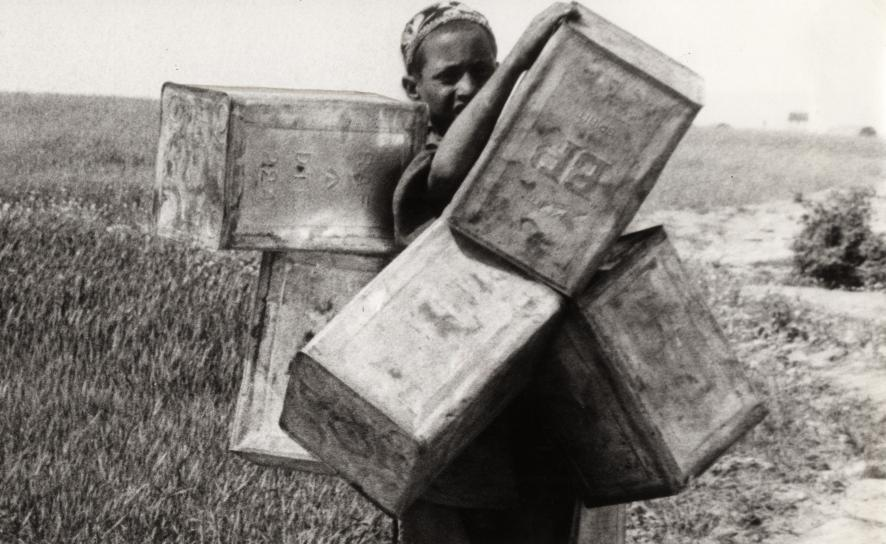 Nationaal Archief/Spaarnestad Photo/Het Leven